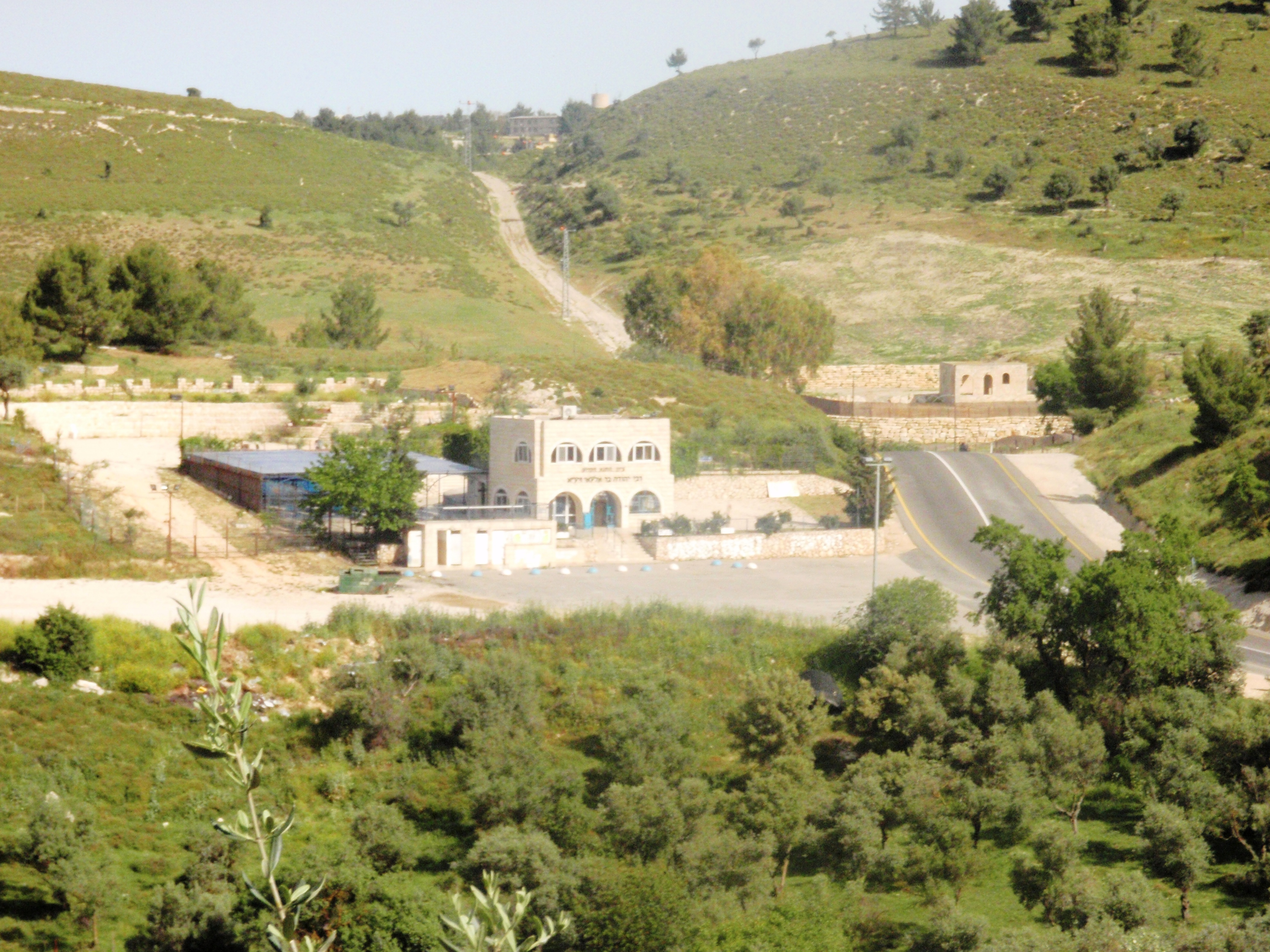 Tomb Hatana Rabbi Yehuda bar Ilai near Safed